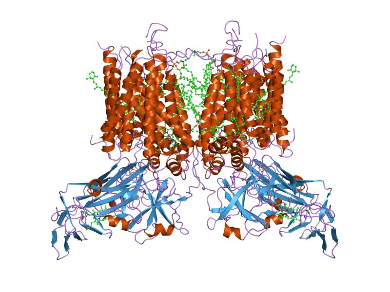 Cartoon representation of the molecular structure of protein registered with 1vf5 code.